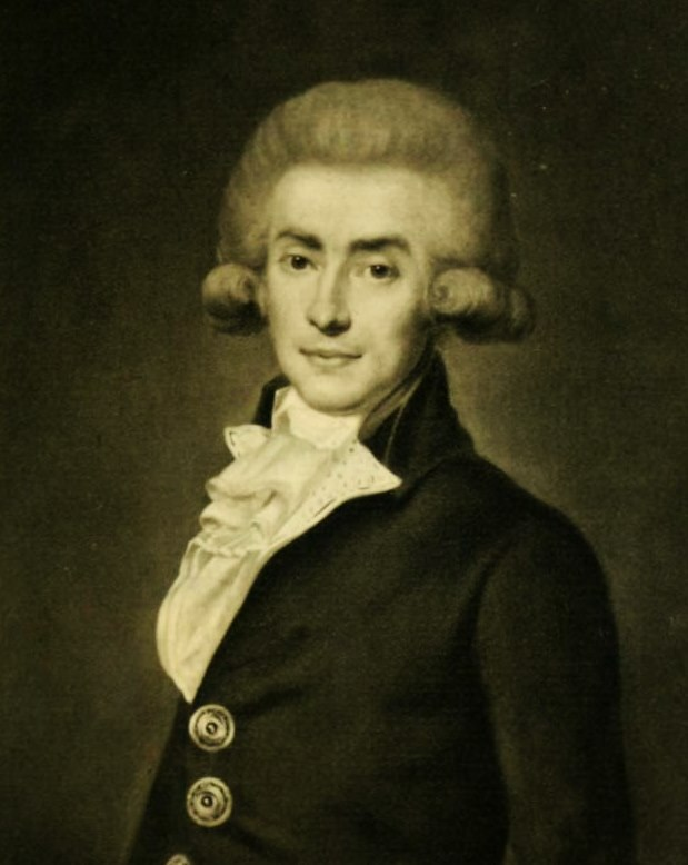 Merchant Johann Ernst Schickler, Oil-painting